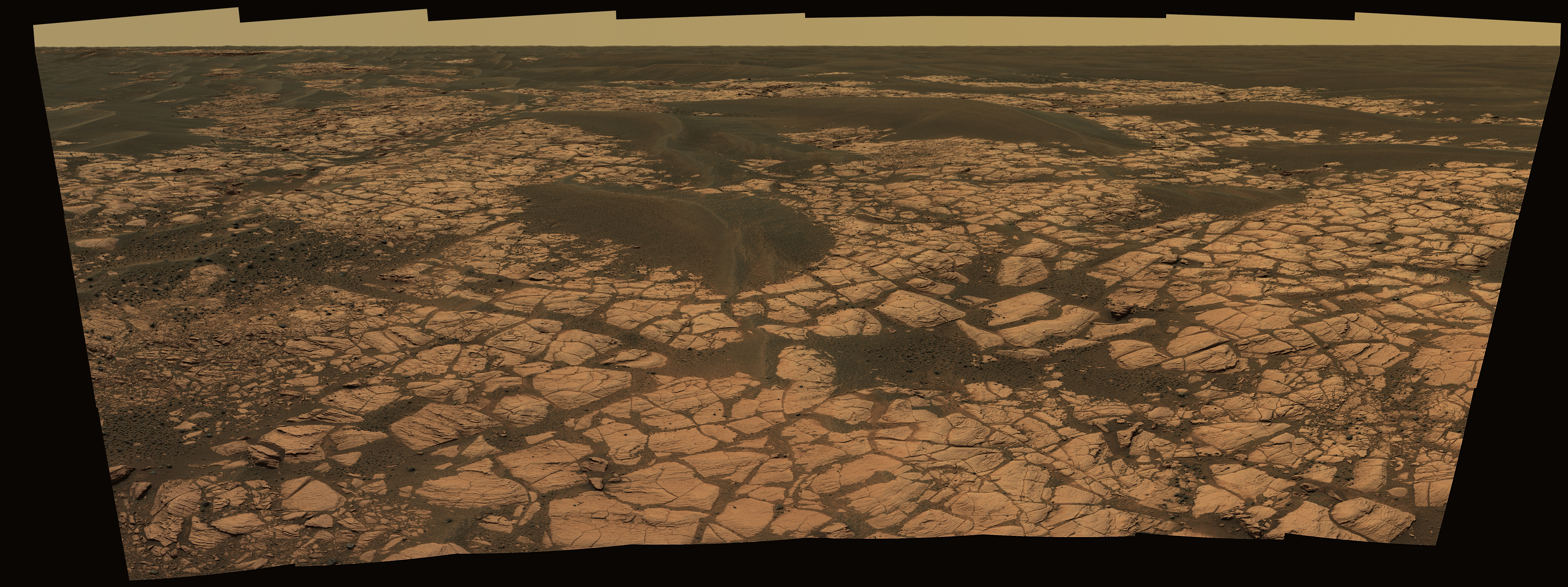 This view from the panoramic camera on NASA's Mars Exploration Rover Opportunity shows an outcrop called "Olympia" along the northwestern margin of "Erebus" crater. The view spans about 120 degrees from side to side, generally looking southward. The outcrop exposes a broad expanse of sulfate-rich sedimentary rocks. The rocks were formed predominantly from windblown sediments, but some also formed in environmental conditions from damp to under shallow surface water. After taking the images that were combined into this view, Opportunity drove along along a path between sand dunes to the upper left side of the image, where a cliff in the background can be seen. This is a cliff known as the "Mogollon Rim." Researchers expect it to expose more than 1 meter (3 feet) of new strata. These strata may represent the highest level observed yet by Opportunity. The image is an approximately true-color rendering generated using the panoramic camera's 750-nanometer, 530-nanometer and 430-nanometer filters. Image Credit: NASA/JPL-Caltech/Cornell